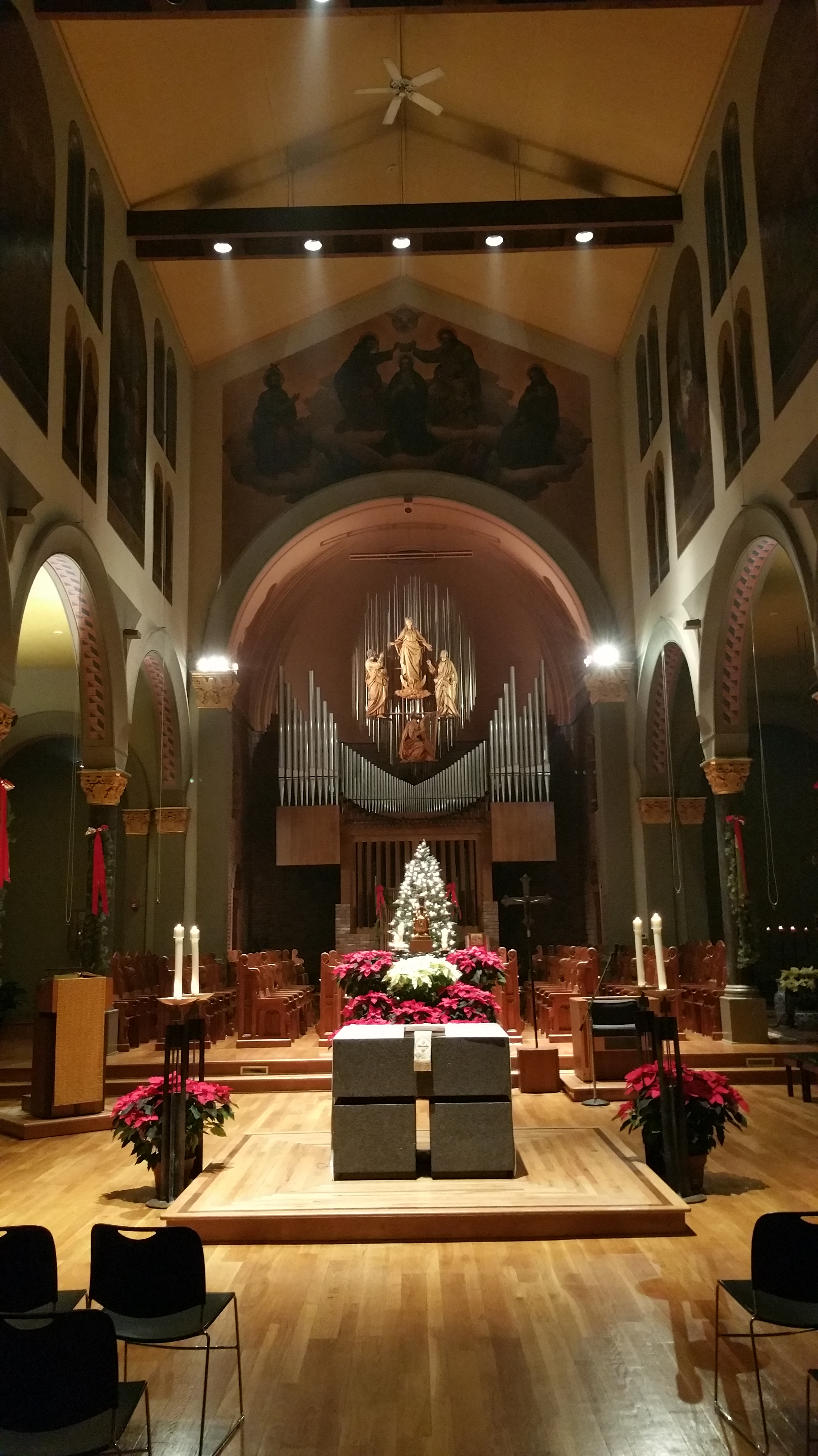 The chancel of St. Mary's Abbey Church, which houses the The Benedictine Abbey of Newark. I clicked this picture on January 1, 2017.